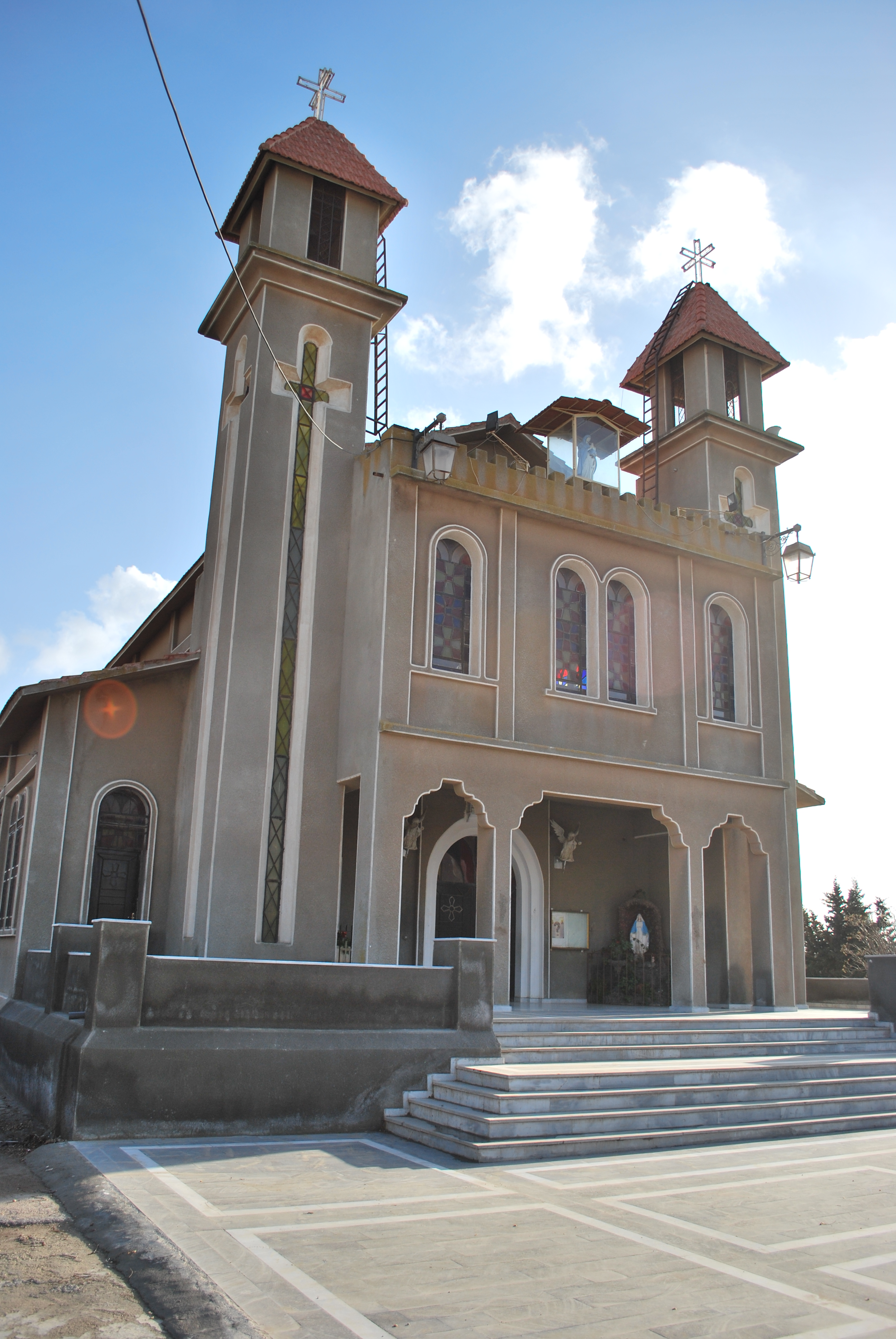 Main Church in the village of Bassir, Deraa, Syria